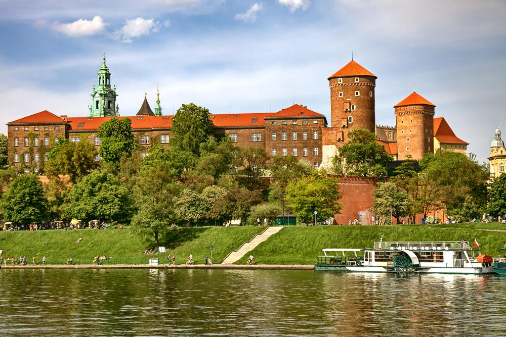 An old royal castle in Poland.